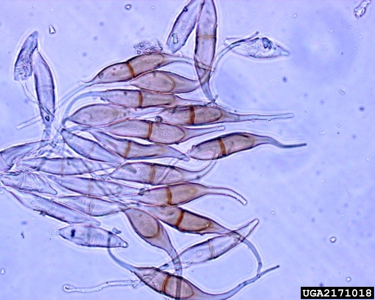 Puccinia phyllostachydis asexuell_spores